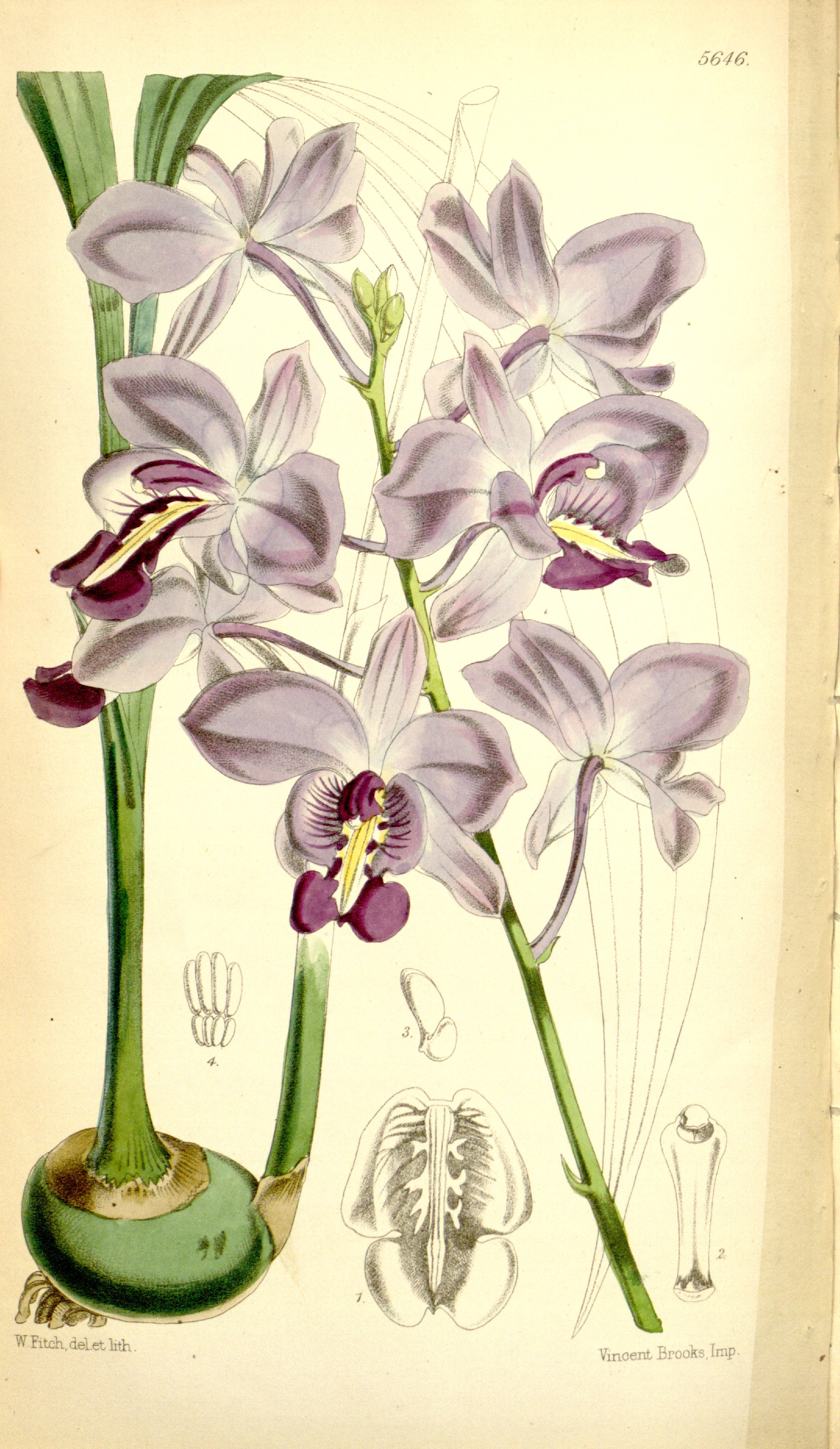 Illustration of Bletia catenulata (as syn. Bletia sherrattiana)